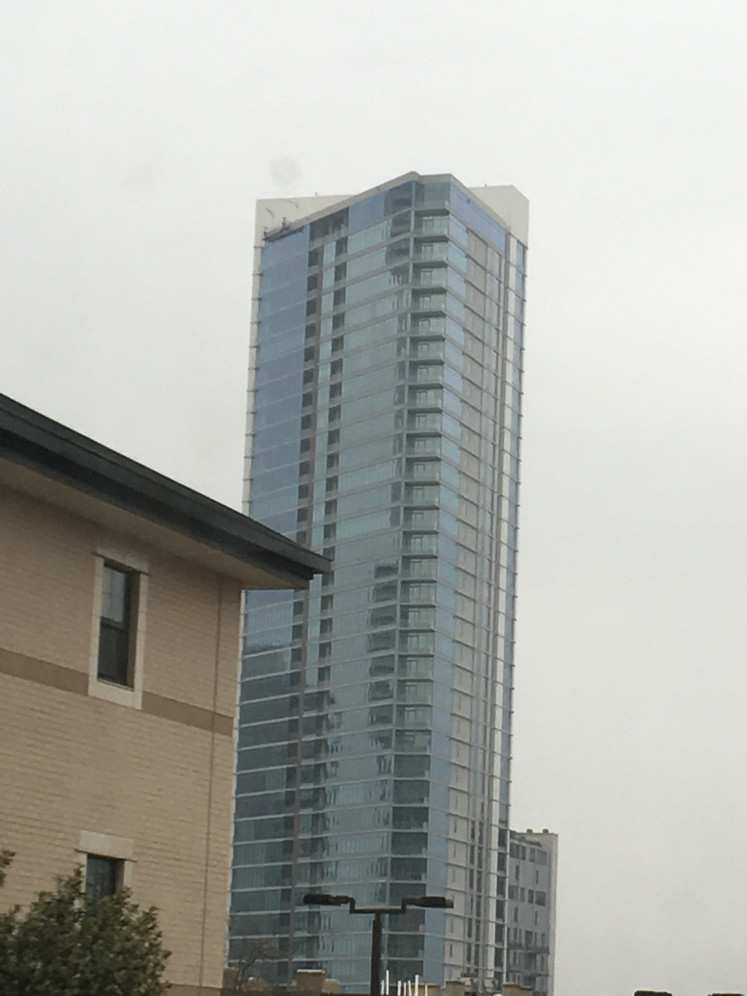 A picture of Fifth & West from the Northeast on an overcast day.